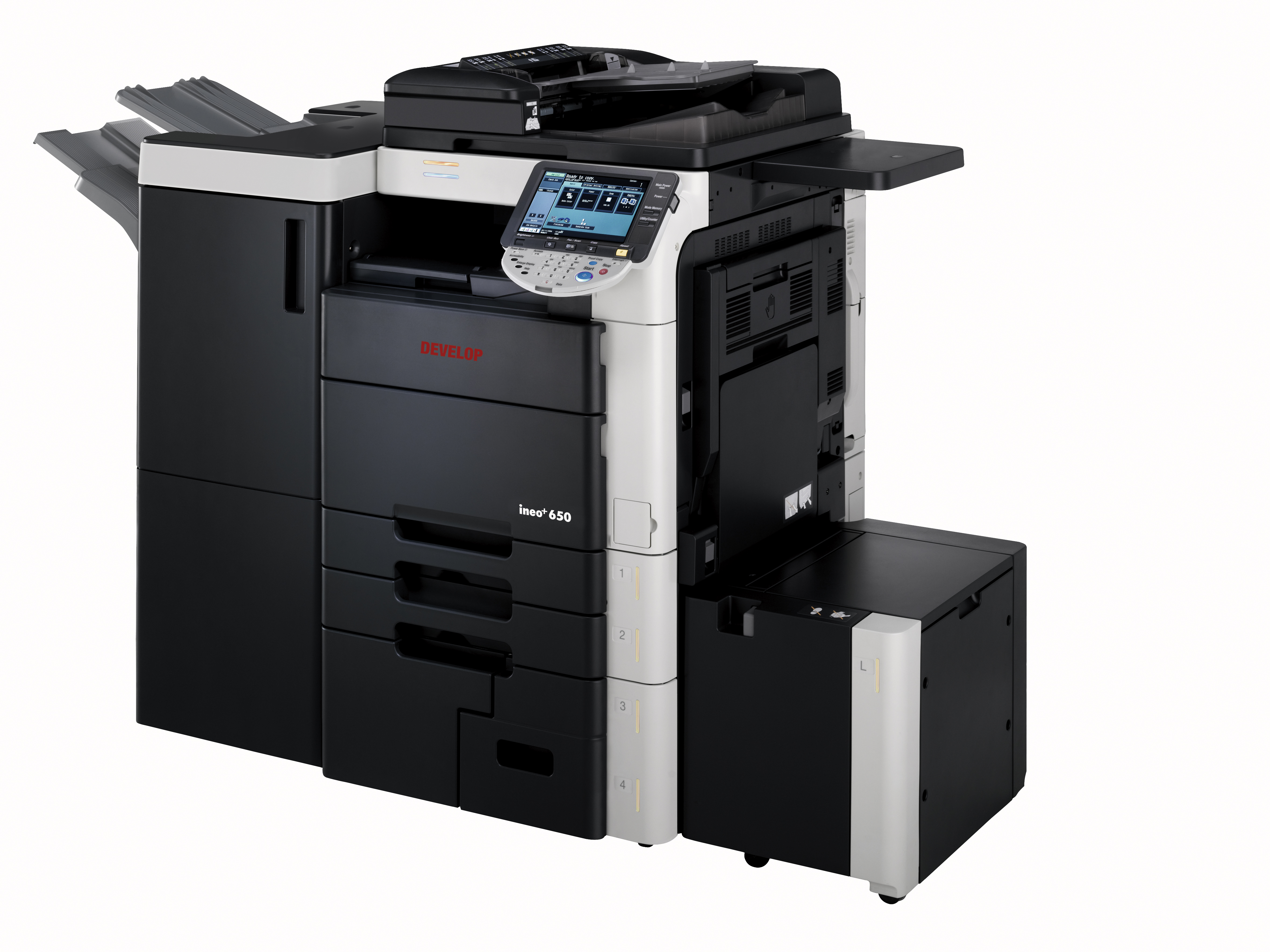 Develop ineo+ 650